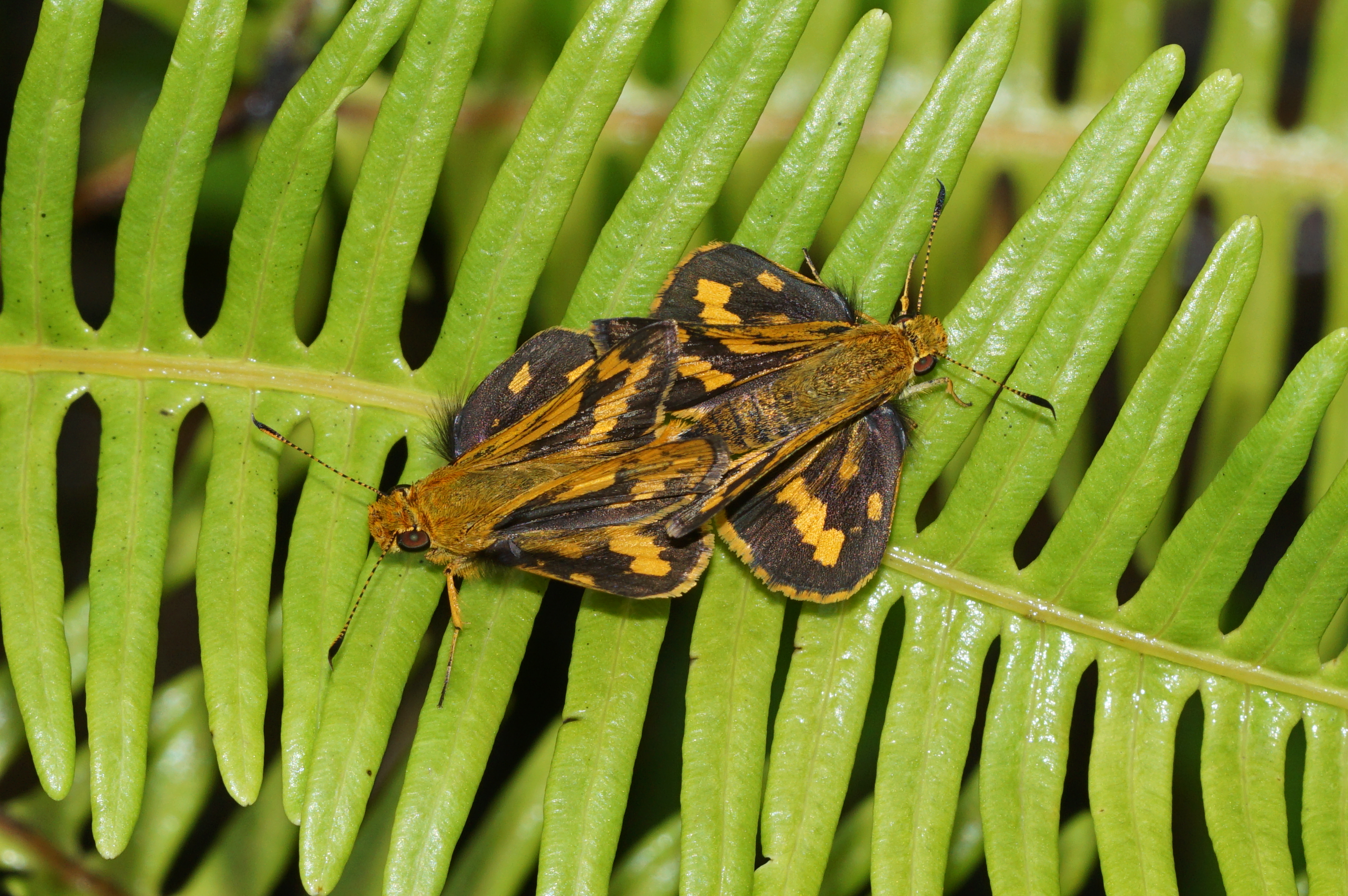 Potanthus sp.